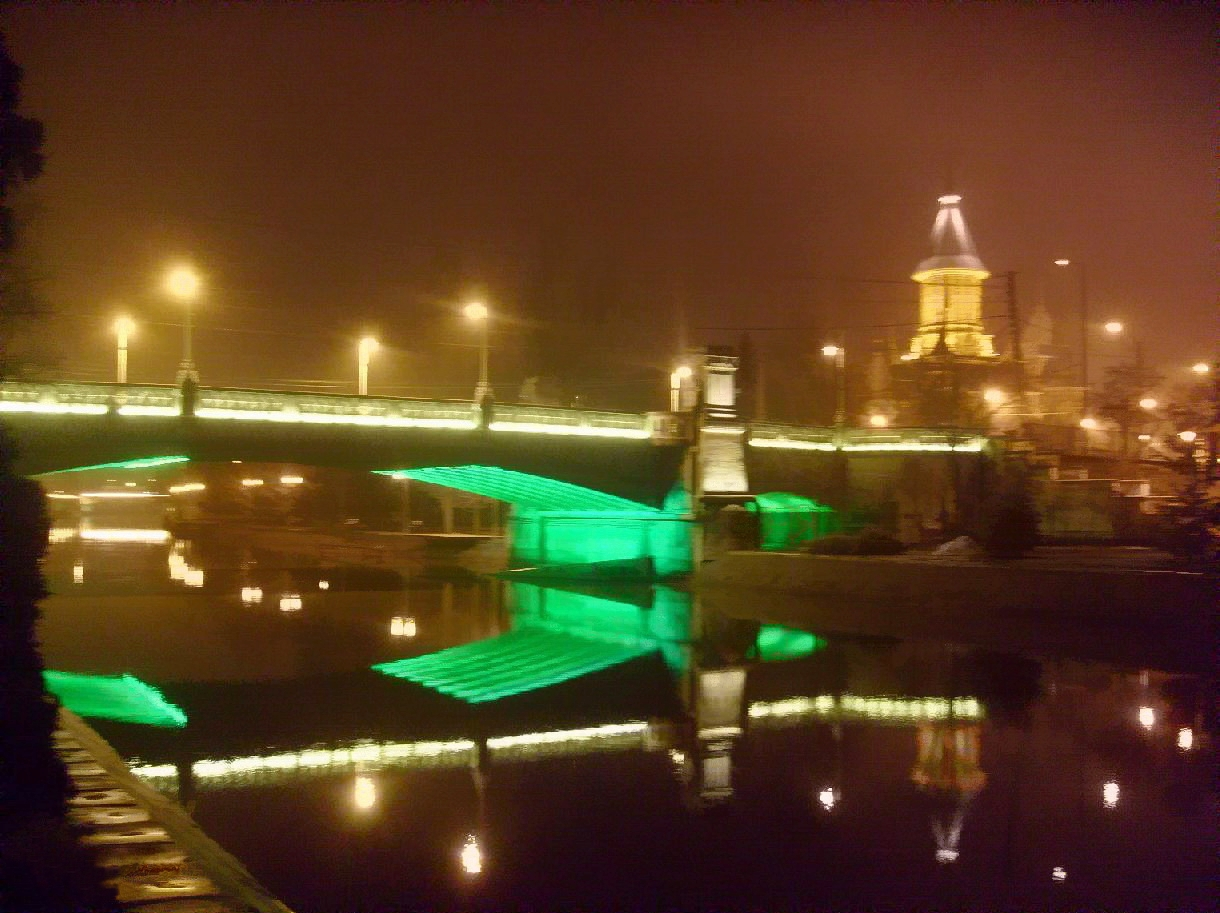 Bega Chanel in Timisoara, near Tineretii bridge.